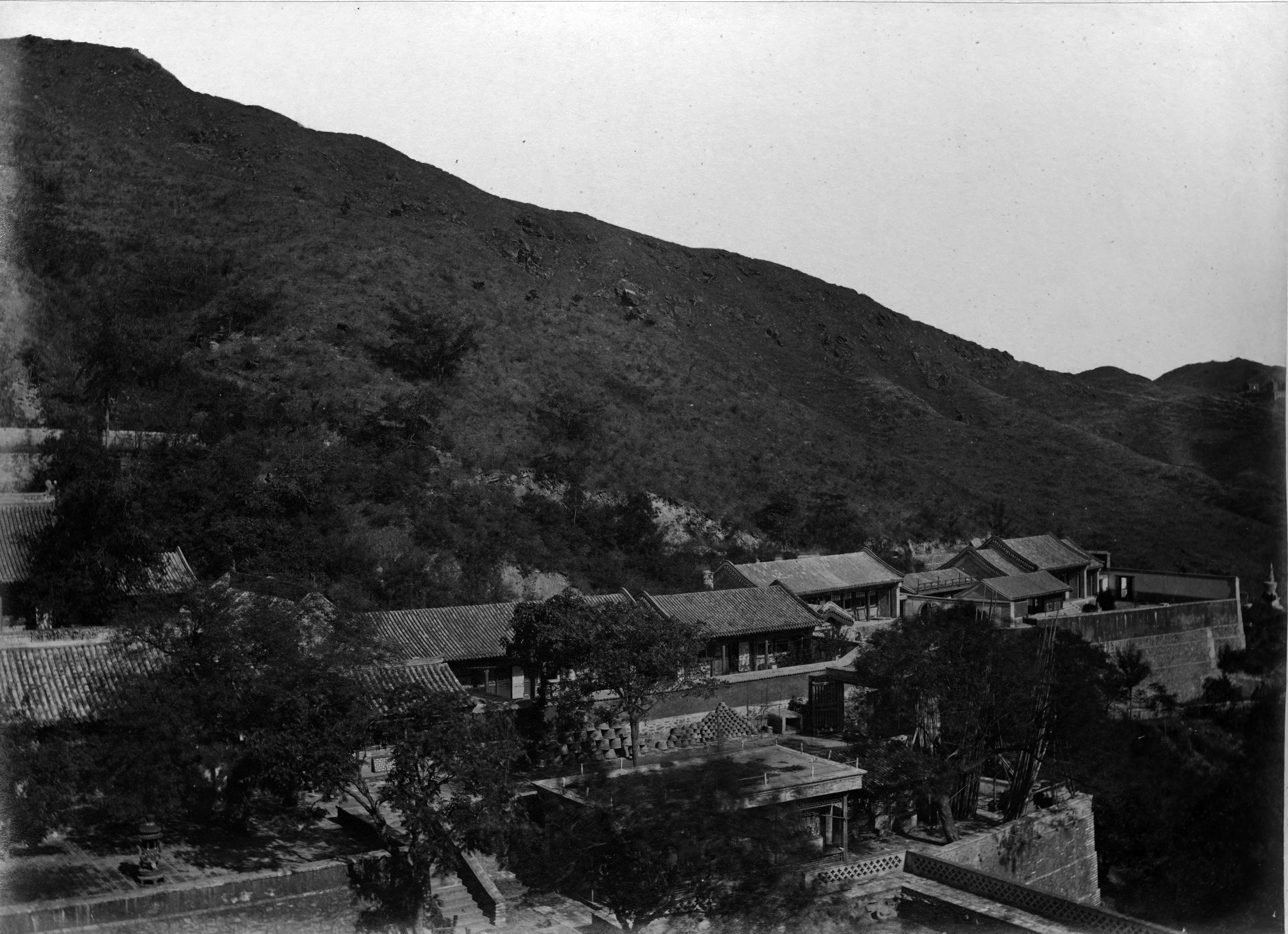 Photograph in Album of photographs of Peking and its environs.